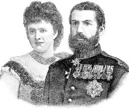 King Carol I & Queen Elizabeth of Romania, engraving from 1881 newspaper